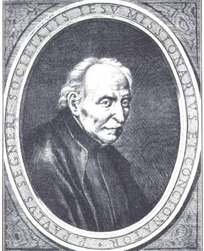 Paolo Segneri